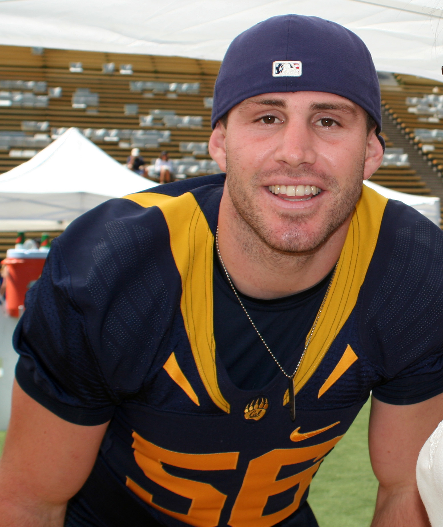 Monica with Cal's standout linebacker Zack Follett at Fan Appreciation Day.